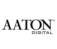 Official logo of Aaton Digital, a french motion picture equipment manufacturer formerly known as Aaton which changed name in 2013.